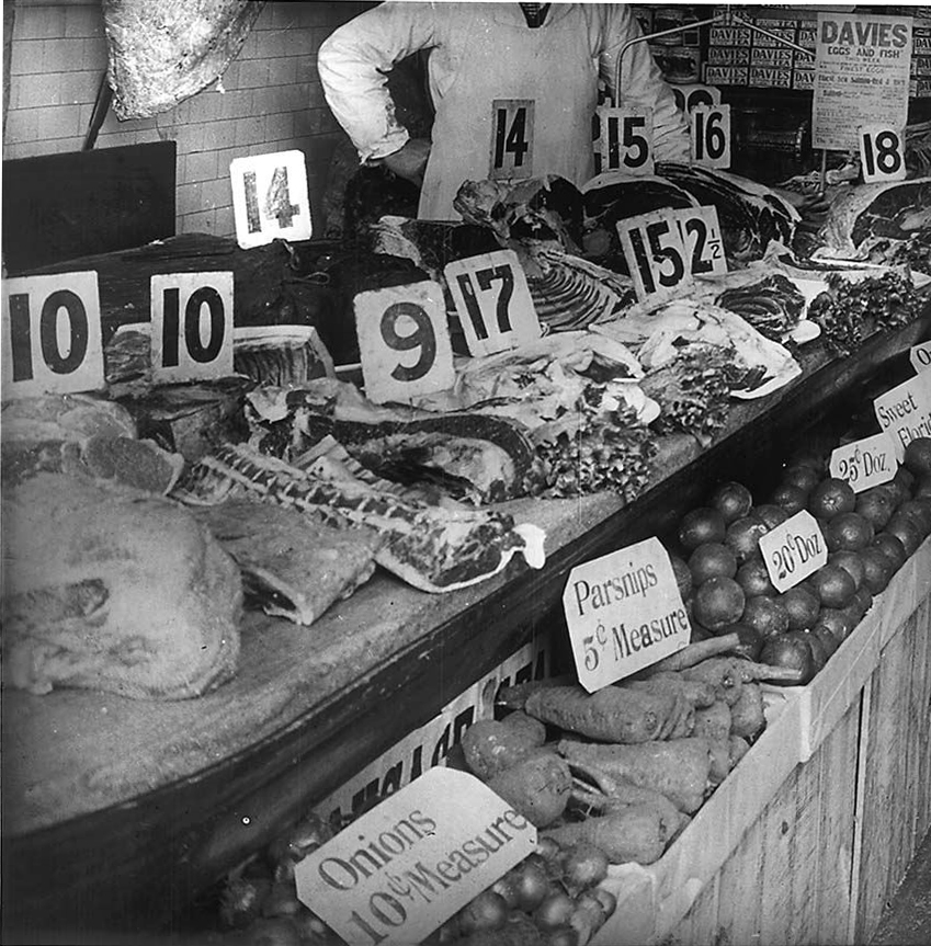 William Davies store, located on Queen Street between Yonge and Bay Streets.